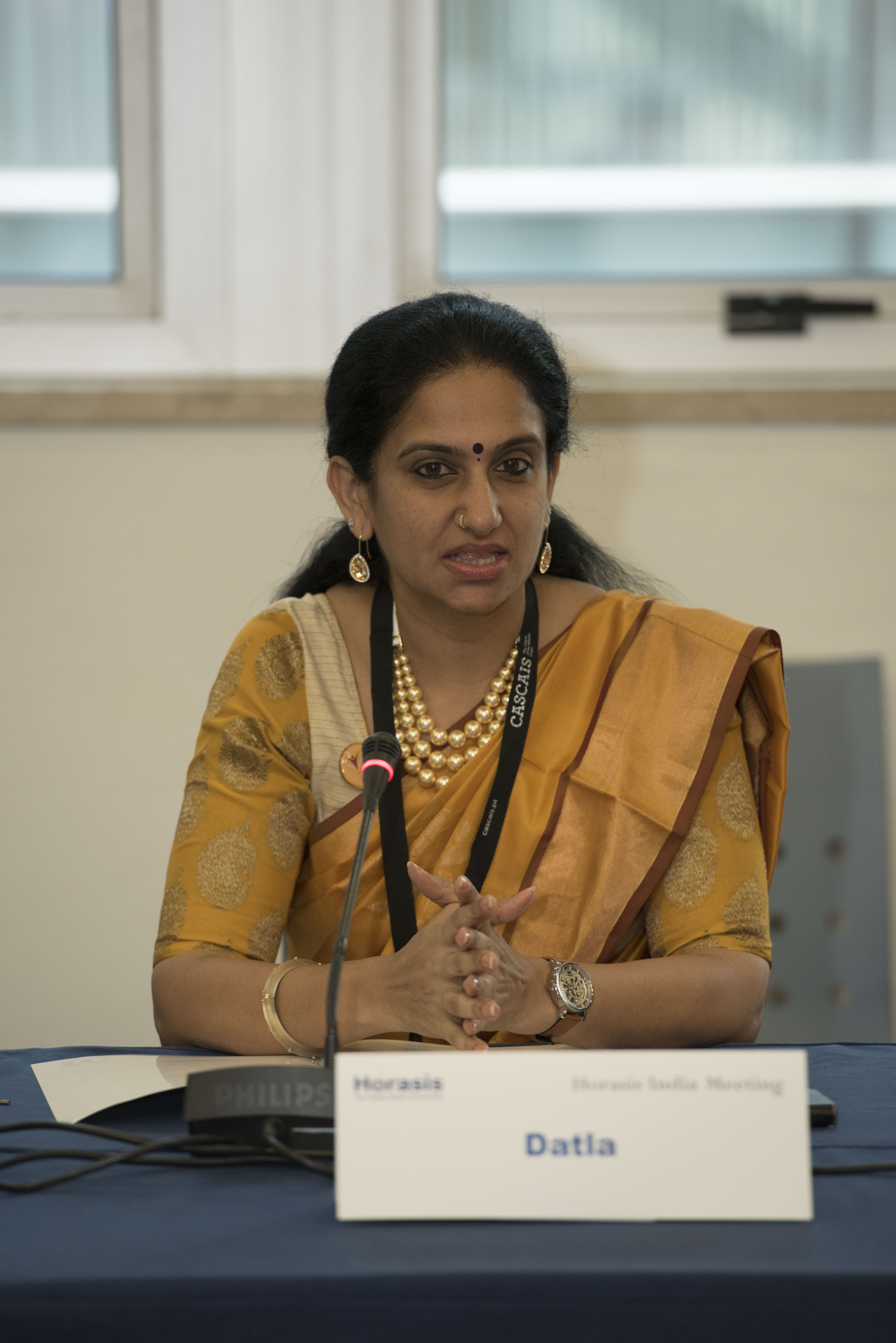 Datla at Horasis India Meeting in 2016